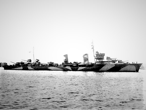 The Regia Marina destroyer Premuda in navigation.